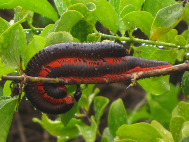 "Malindi Express" millipedes mating. Dar es Salaam, January 2010.